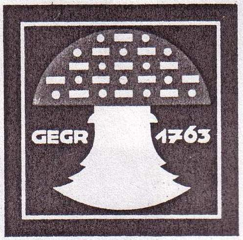 company logo of Johann Anton Lucius, former company in Erfurt, Germany. Not existing anymore since 1952